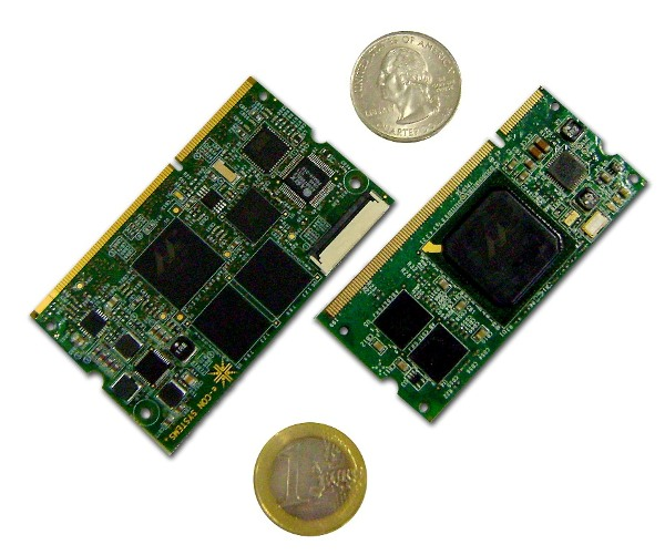 These are e-con Systems's low power Computer on modules based on Marvell's XScale/ARM PXAx microprocessors that runs WinCE 6.0 R2/Linux providing advanced peripheral integration.